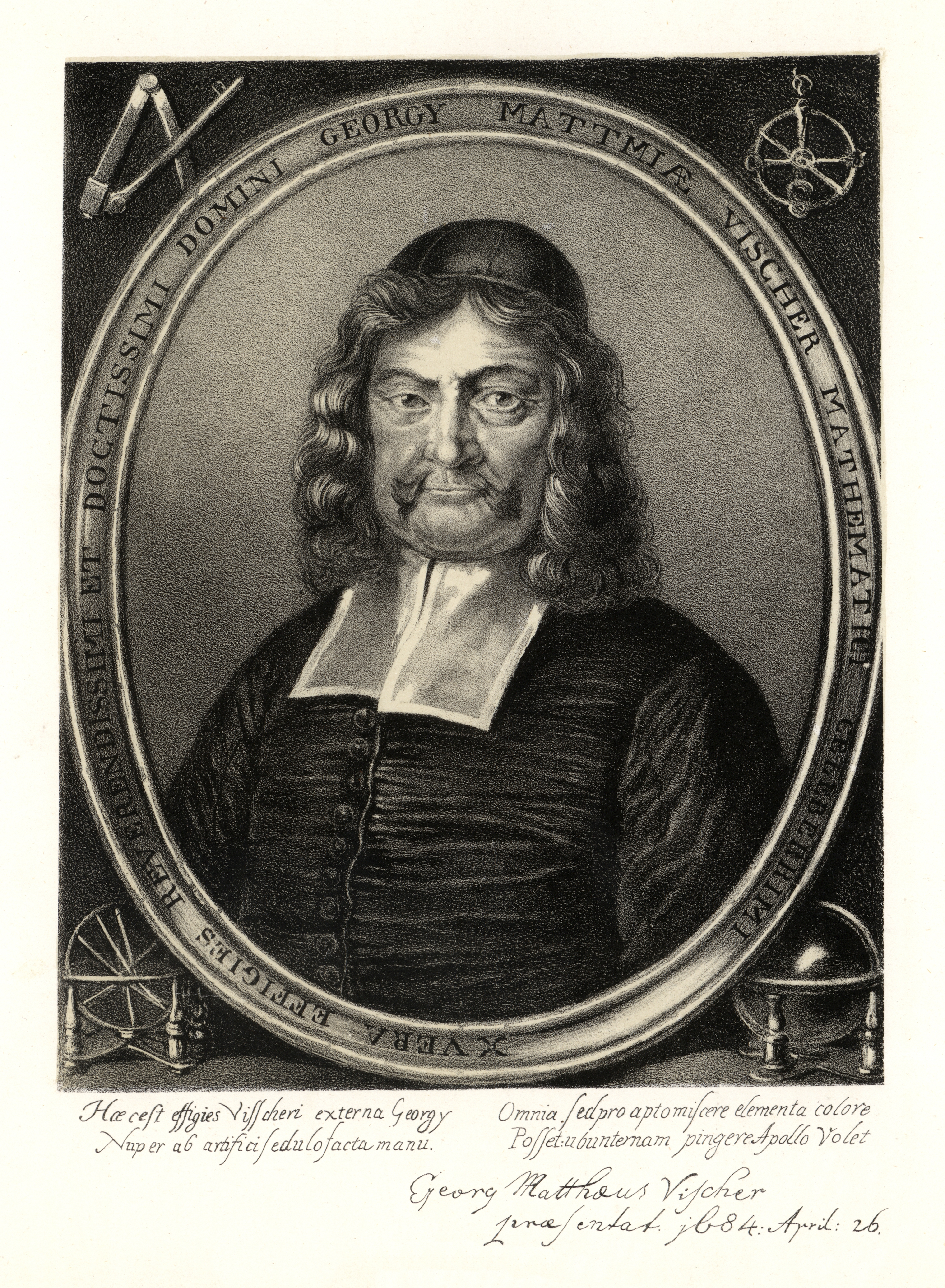 G. M. Vischer, Heliogravure von Mezzotinto-Originaldruck (aus dem Besitz von Dr. von Karajan, Graz), Leykam 1864 - Original aus 1684 Georg Matthäus Vischer (1628–1696) Description Austrian cartographer and engraver Date of birth/death22 April 162813 December 1696Location of birth/deathWenns (Tirol)LinzAuthority control VIAF: 2771891 GND: 118768646 BnF: cb153651394 ULAN: 500091493 ISNI: 0000 0000 6659 9395 WP-Person Die Umschrift: VERA EFFIGIES - REVERENDISSIMI - ET - DOCTISSIMI - DOMINI - GEORGI - MATIIAE VISCHER - MATHEMATICI - CELEBRIMI - Haec et effegies Vischera externa Georgy // Nuper ab artifici sedula facta manu // Omnia sed pro apto miscere elementa colore // Posset: Ubi internam pingere Appolo volet. Deutsche Übersetzung: Dies ist das äußere Bild des Georg Vischer // Neulich gemalt von der fleißigen Hand eines Künstlers // um das Innere zu malen, müsste Apollo alles // Ausgezeichnete mischen, um die passende Farbe zu treffen. Graz, 16. April 1684 Scanprojekt Bundesdenkmalamt Österreich This scan or this PDF-file was created within the Austrian Wikipedia-project Denkmalpflege Österreich (German only) supported by Wikimedia Germany and Wikimedia Austria as part of the Wikipedia community-project to collect public domain documents from the library of the Heritage Monuments Board of Austria. This document describes or depicts an object which is located in Austria today. Send requests for uncompressed scans to Hubertl. This work is in the public domain in the United States, and those countries with a copyright term of life of the author plus 100 years or less. This file has been identified as being free of known restrictions under copyright law, including all related and neighboring rights.